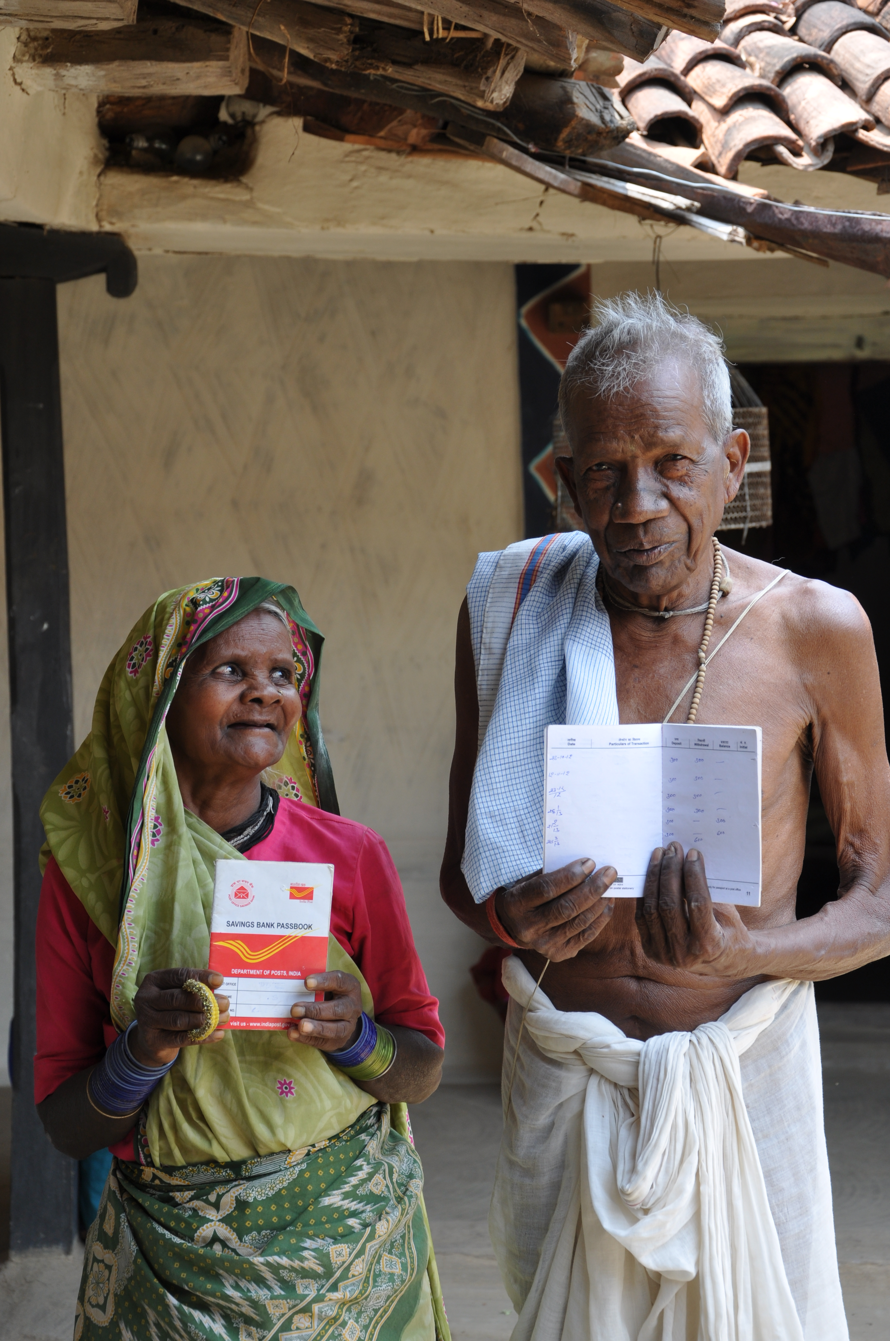 Old Age Pensioners in Potaka Village of Sarguja, Chhattisgarh, showing their pension passbooks